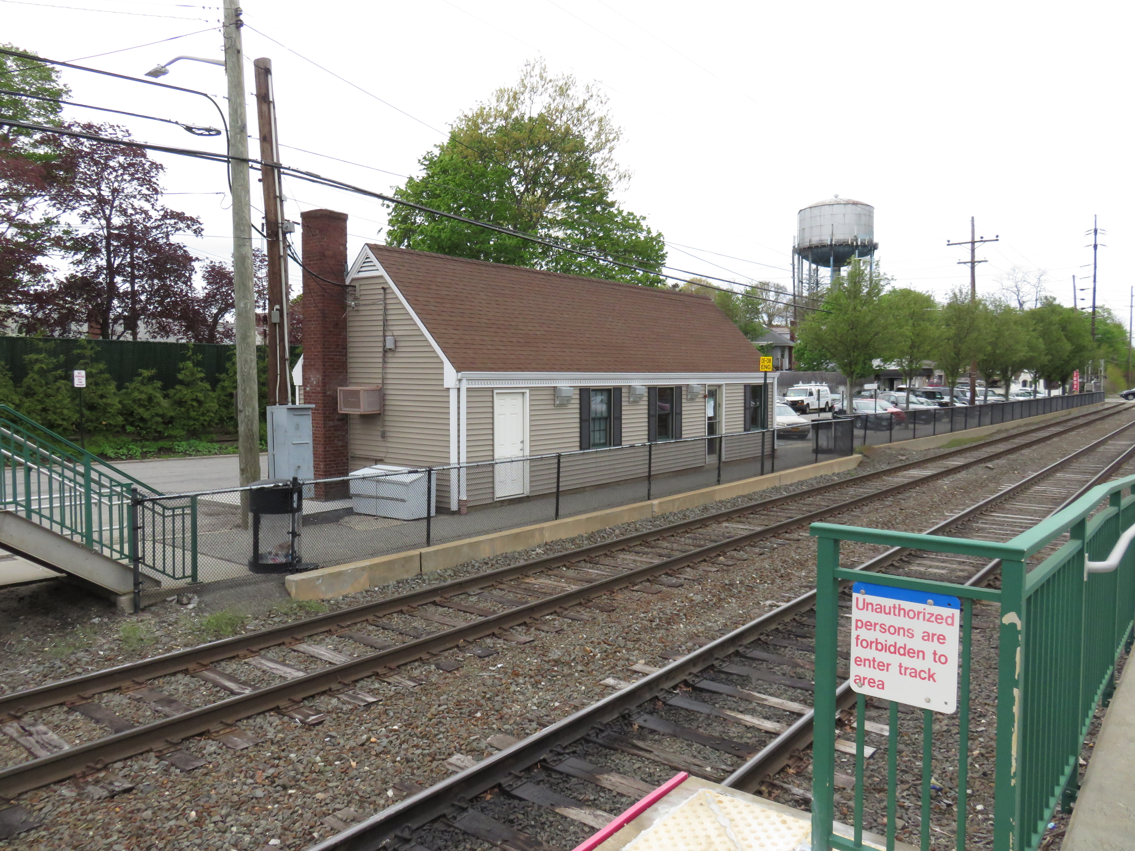 Glen Head Long Island Rail Road station in Glen Head, New York in 2016